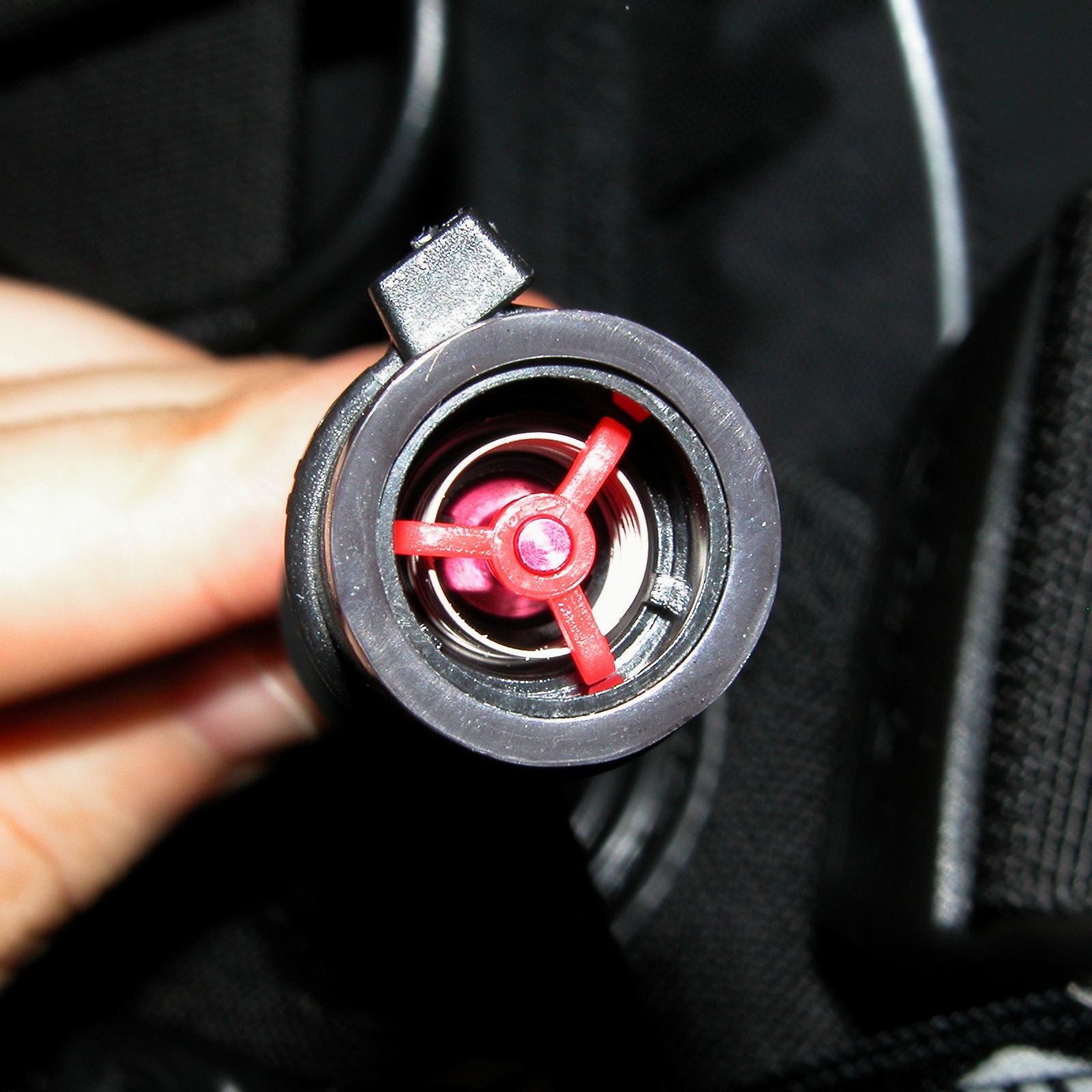 Buoyancy compensator detail: mouth inflation system